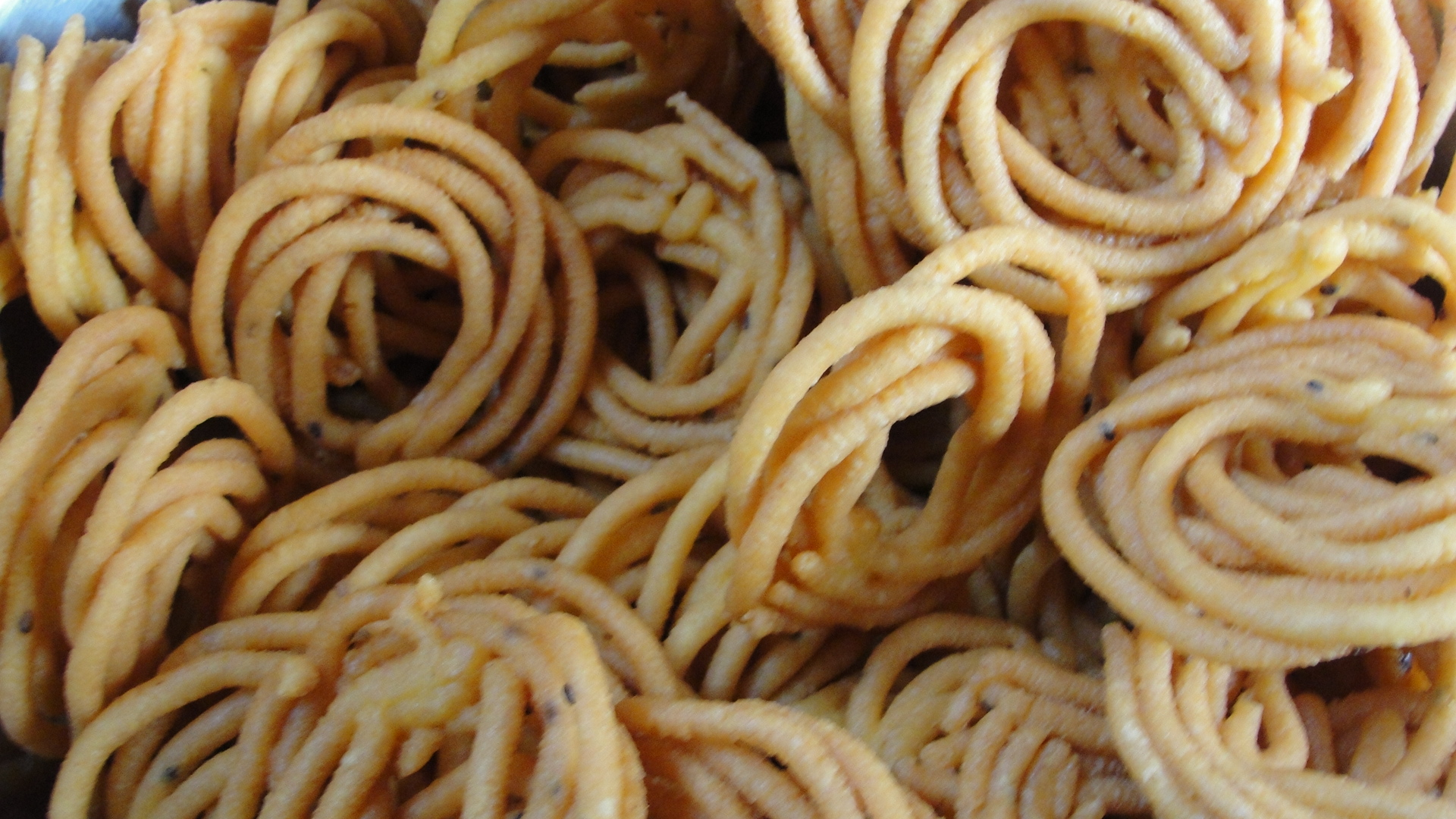 This picture depicting a Traditional Tamil Snack Murukku (முருக்கு).